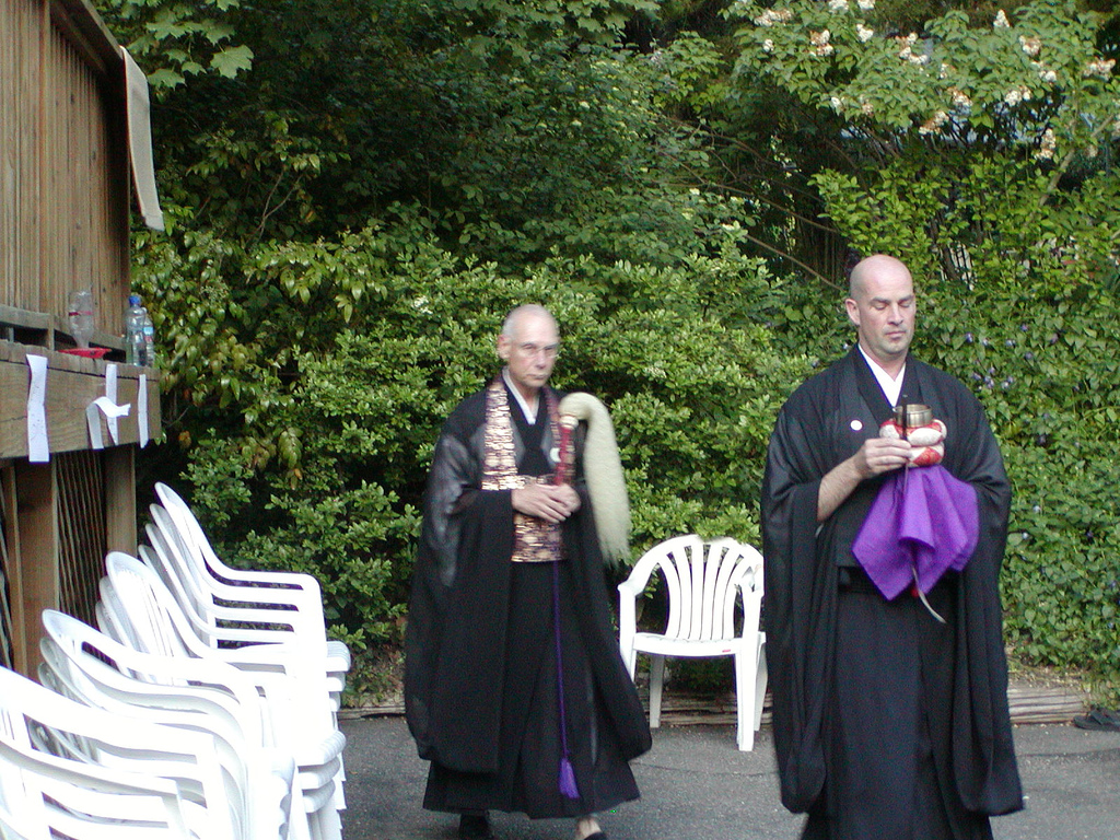 Simon (Jisha, or personal attendant) leads Roshi in to officiate.